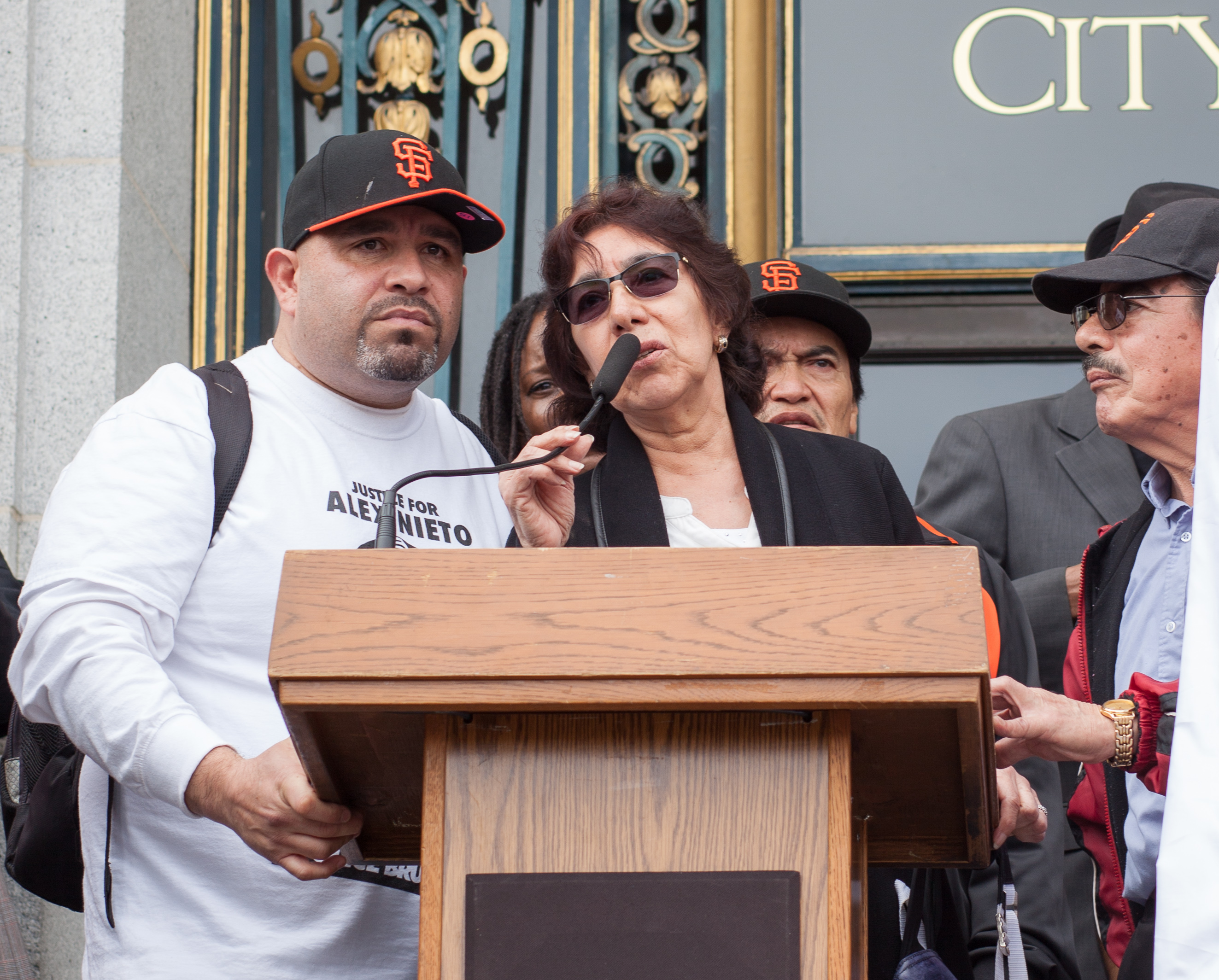 Elvira Nieto, mother of the slain Alex Nieto, speaks at a podium on the steps of San Francisco City Hall.